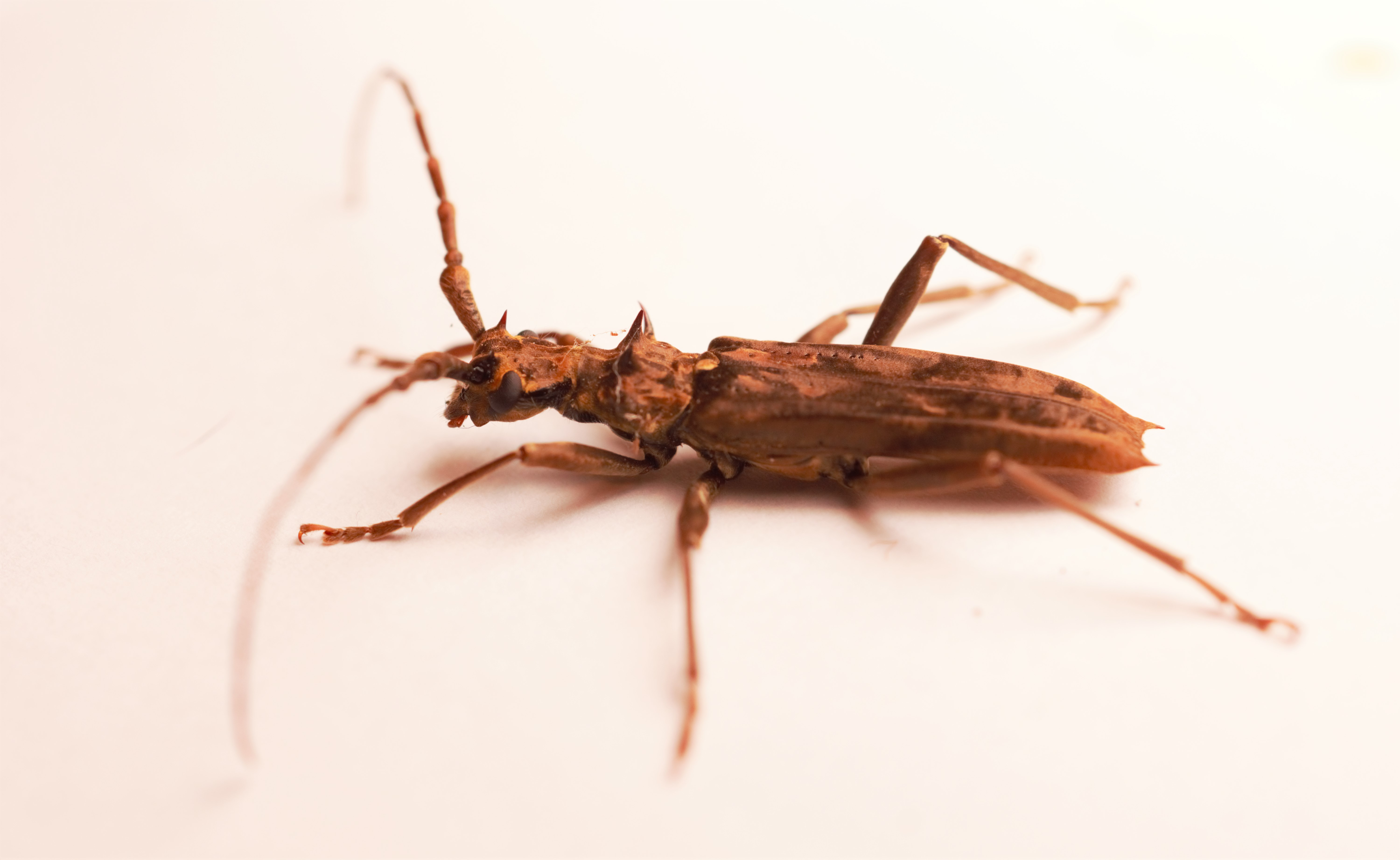 Male Blosyropus spinosus collected from Waitomo, New Zealand and photographed alive.